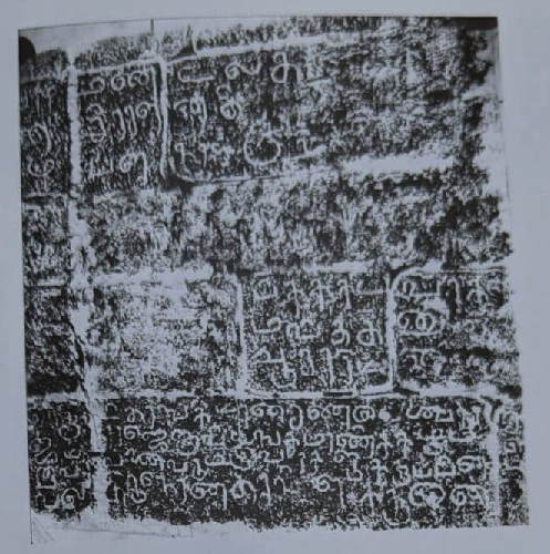 Vanavanmatevi-isvaram inscription, 11th century AD